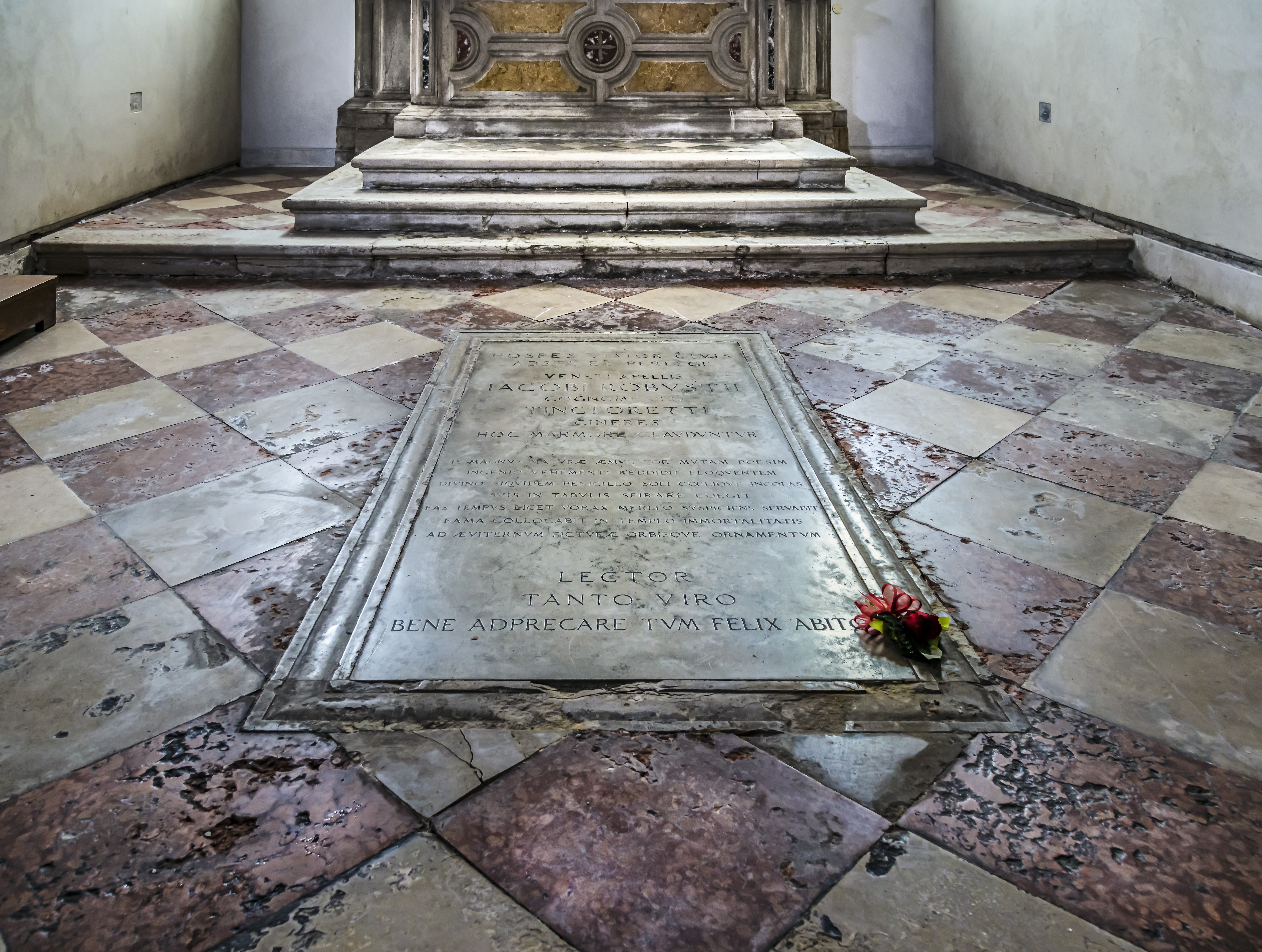 Madonna dell'Orto, Venice - Madonna dell'Orto (Venice) - Chapel apse of right - The tomb of Tintoretto